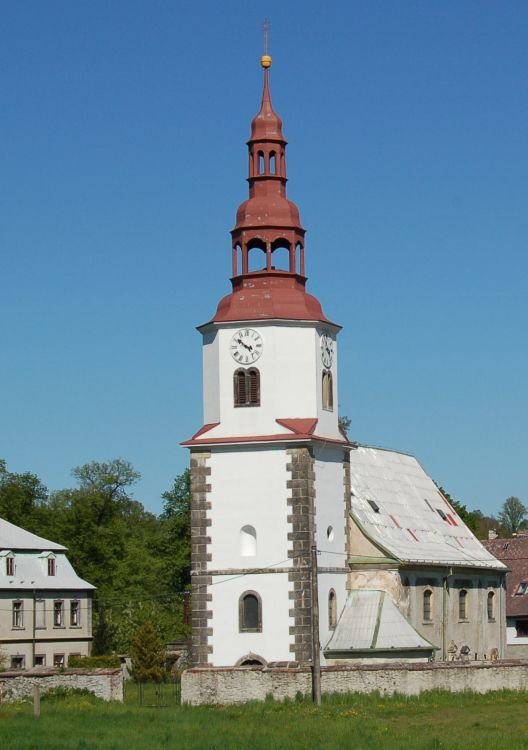 St Nicholas church in Bílý Kostel nad Nisou, Liberec District, Czech Republic